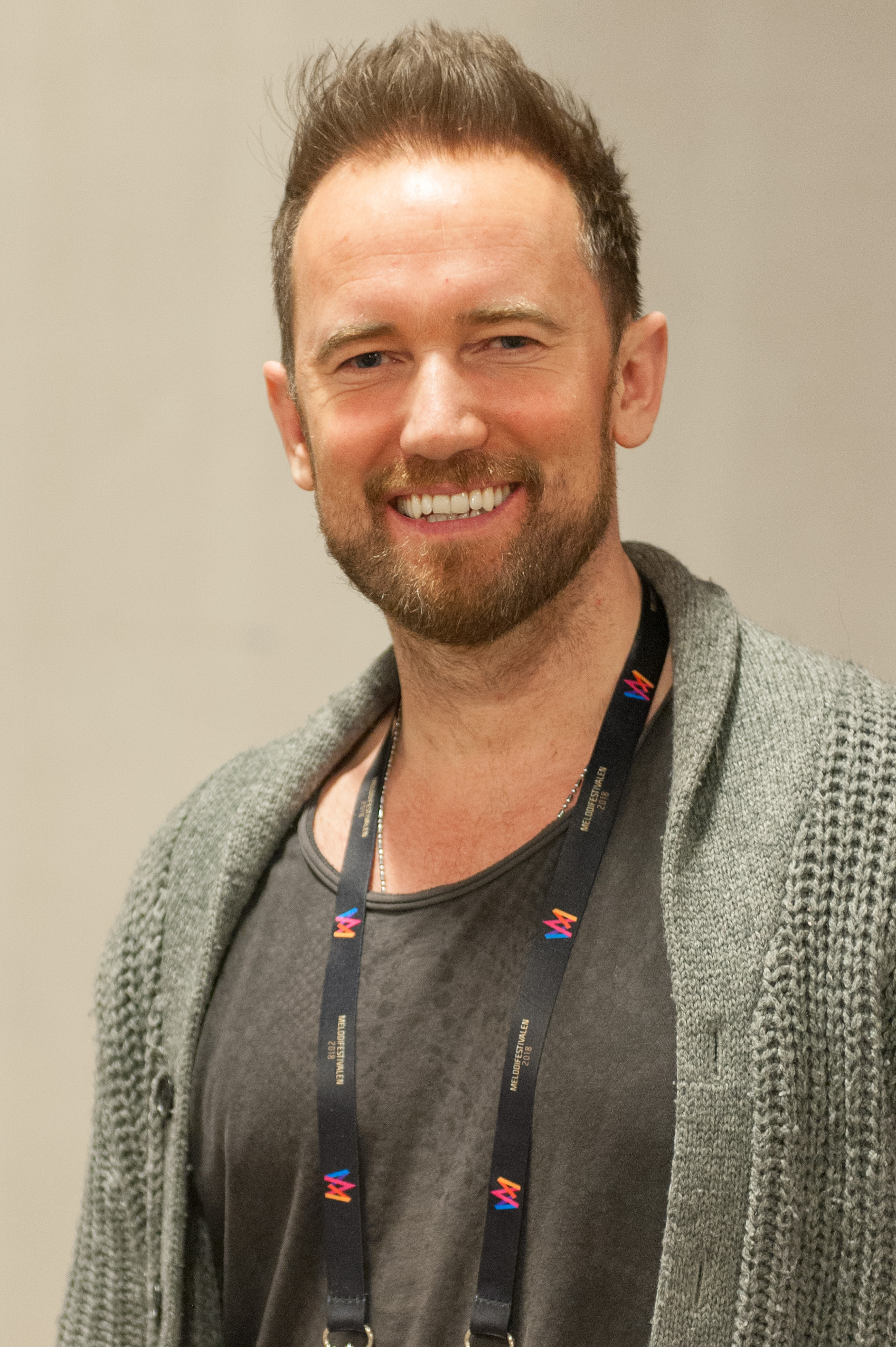 Melodifestivalen 2018 final i Stockholm